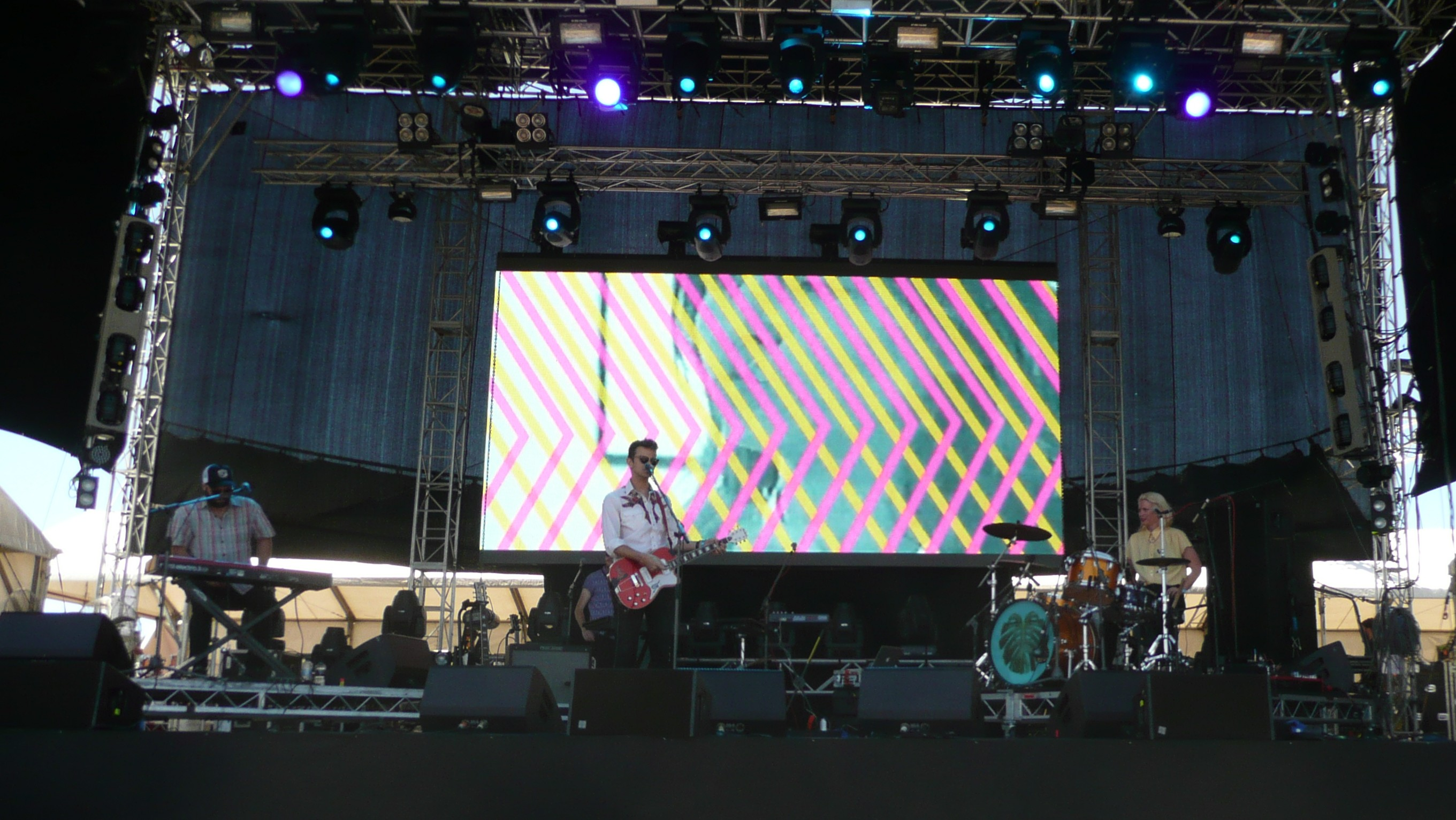 Band Big Scary performing at the 2014 Southbound music festival in Busselton, Western Australia.